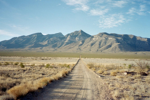 A view of Big Hatchet Peak, in far southwestern New Mexico, from the access road.